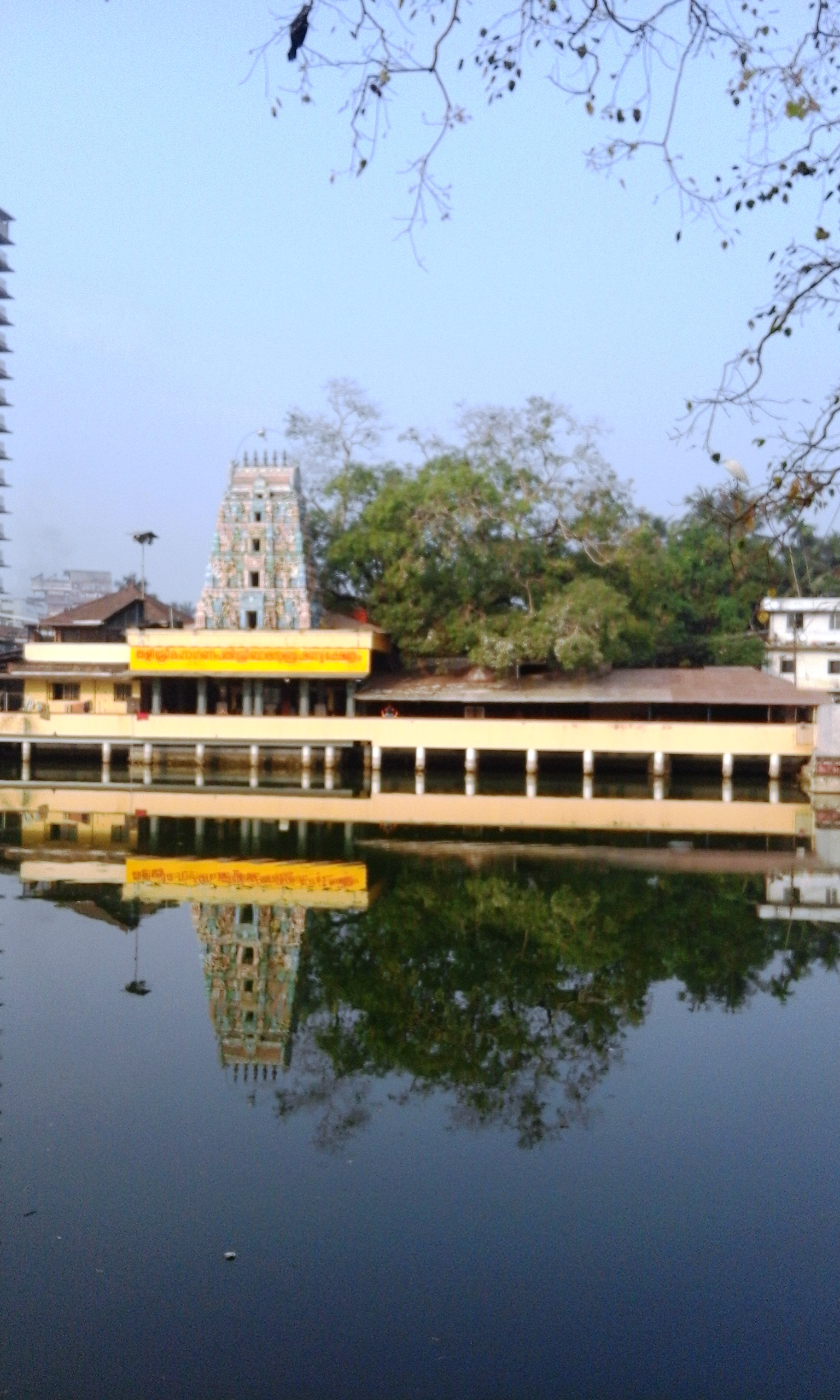 Kozhikode District, Kerala province, India.